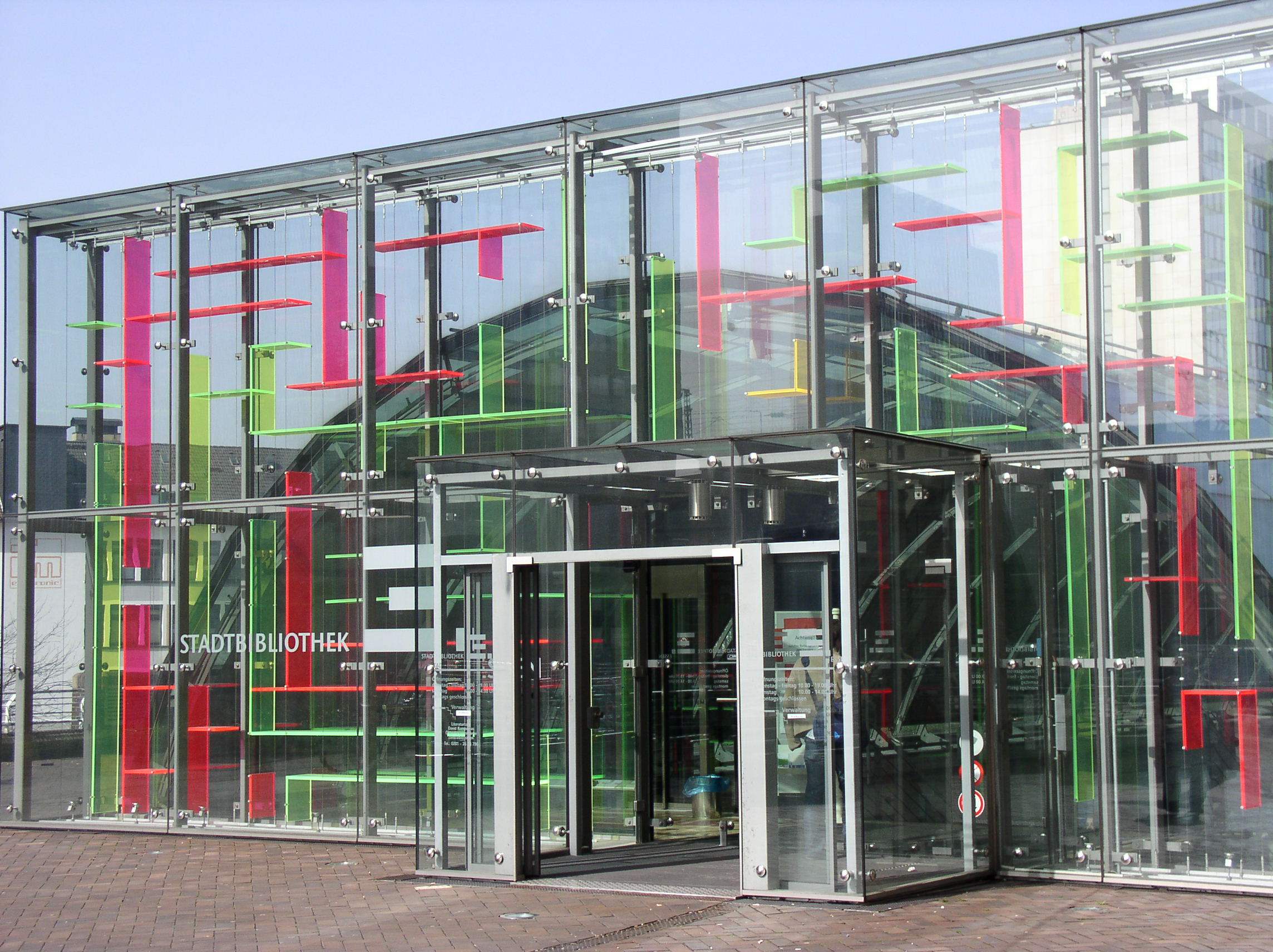 Description: Stadtbibliothek Essen Source: photo taken by me, March 2004 Photographer: Baikonur